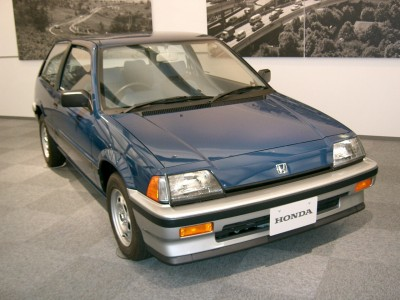 Uploaded by Zilog Jones. Source: 画像:Honda_Civic_3rd_generation-1.jpg (uploaded by 利用者:Stereo)